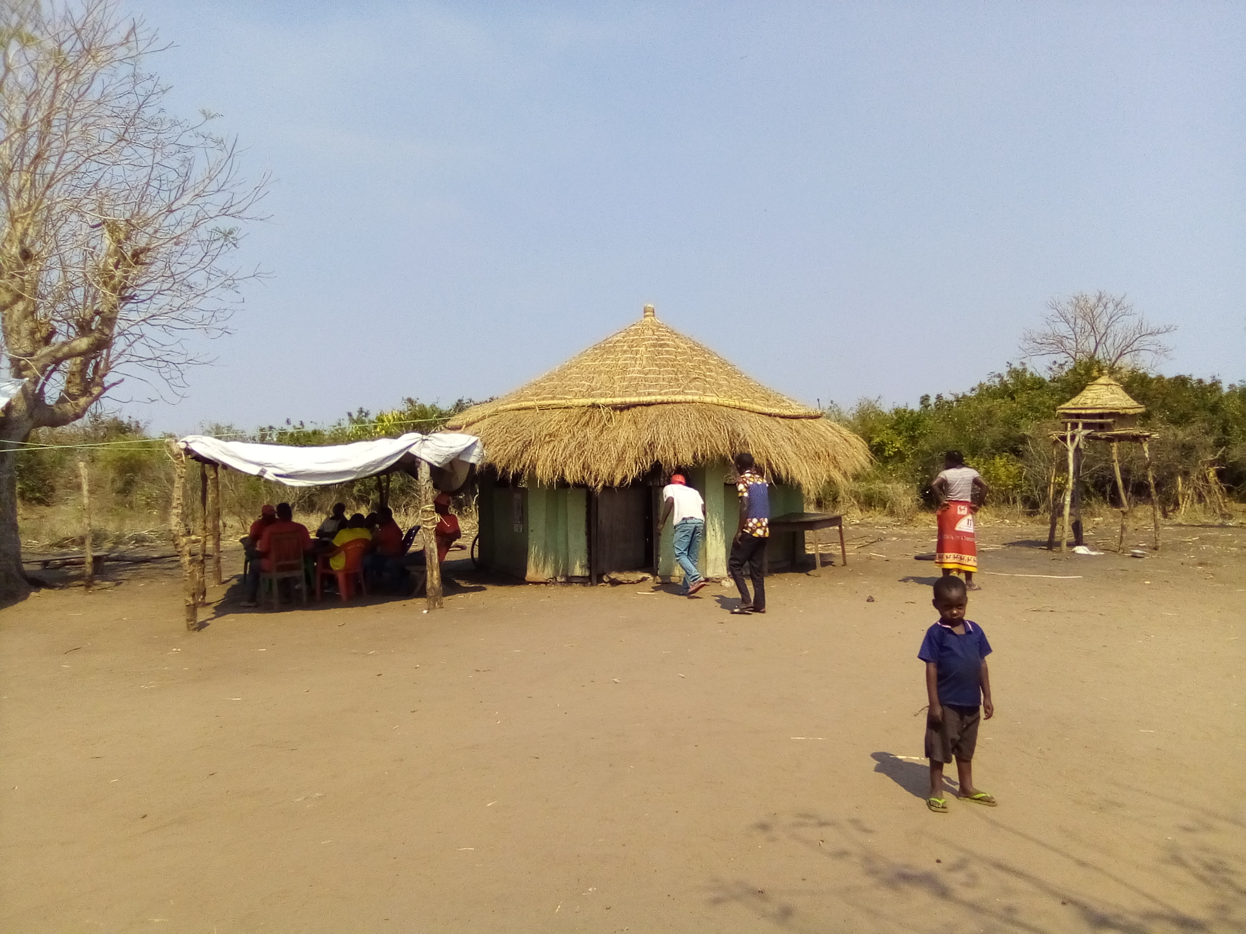 This is an image with the theme "Africa on the Move or Transport" from: Mozambique